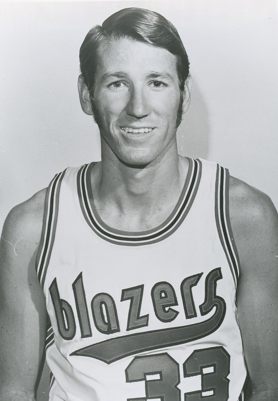 1970 press photo of Jim Barnett, basketball player for the Portland Trail Blazers